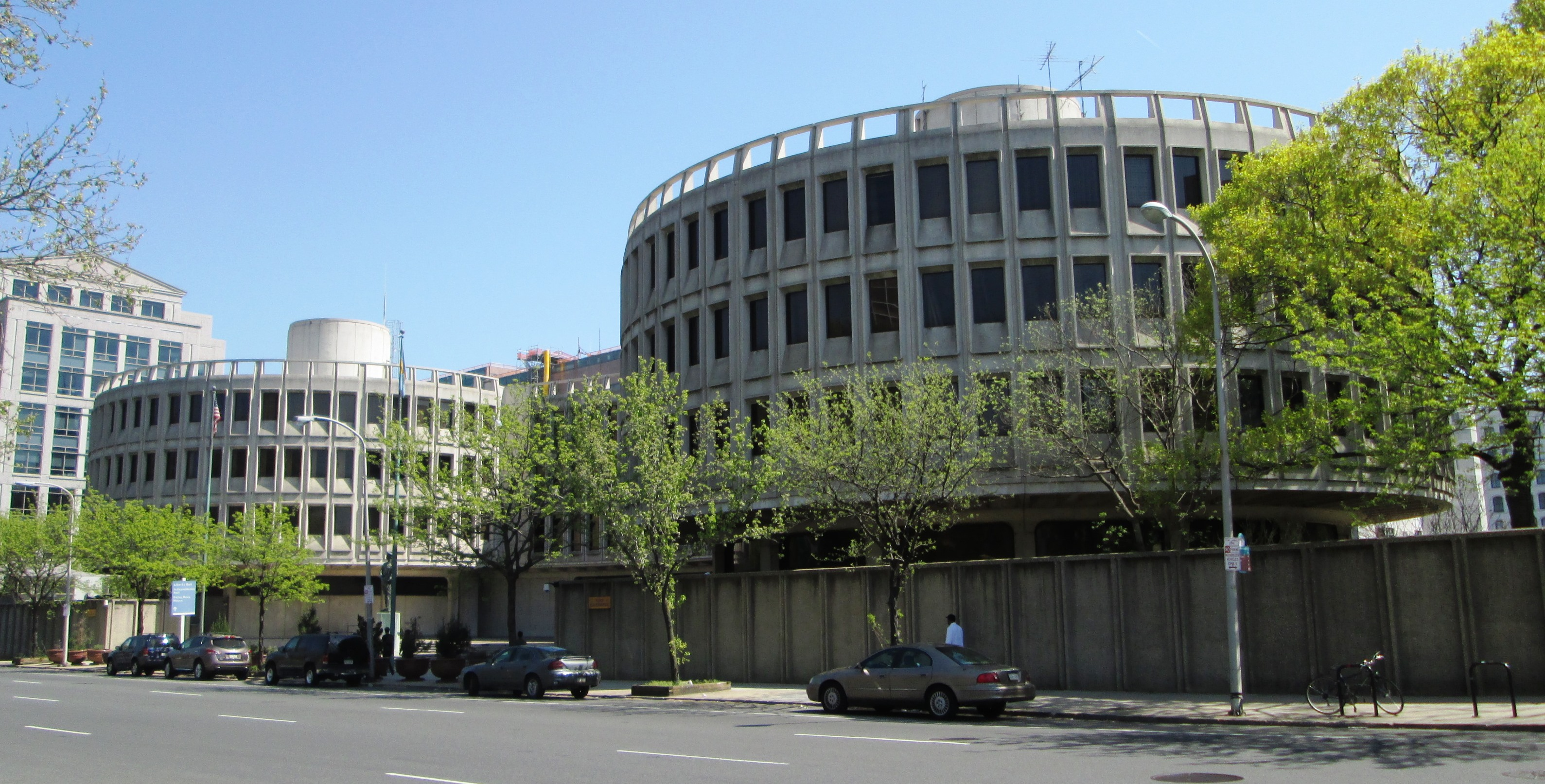 The Philadelphia Police Administration Building at 700 Race Street between N. 7th and N. 8th Street near the Chinatown neighborhood of Philadelphia, nicknamed "The Roundhouse", was built 1963 and was designed by Geddes, Brecher, Qualls & Cunningham in the Brutalist style. In 2013 a plan to tear it down was announced and preservationists began a campaign to save it. (Sources: Philadelphia Architecture: A Guide to the City and news story)